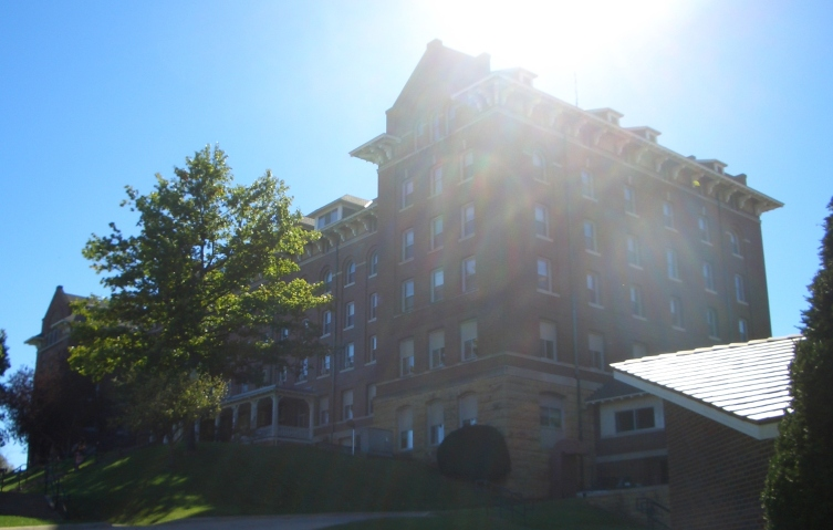 Keane Hall, as seen from Wahlert Hall